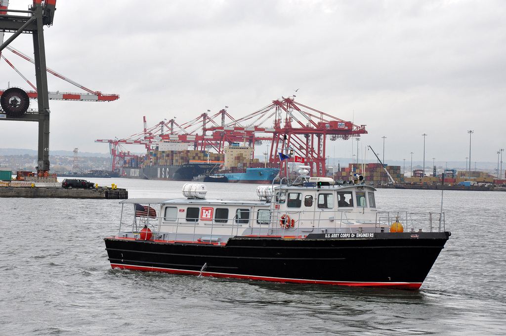 Patrol Boat Hocking works in Newark Bay surrounded by busy container terminals that are part of the New York and New Jersey Harbor, Oct. 25, 2010. (U.S. Army Corps of Engineers photo by Chris Gardner)